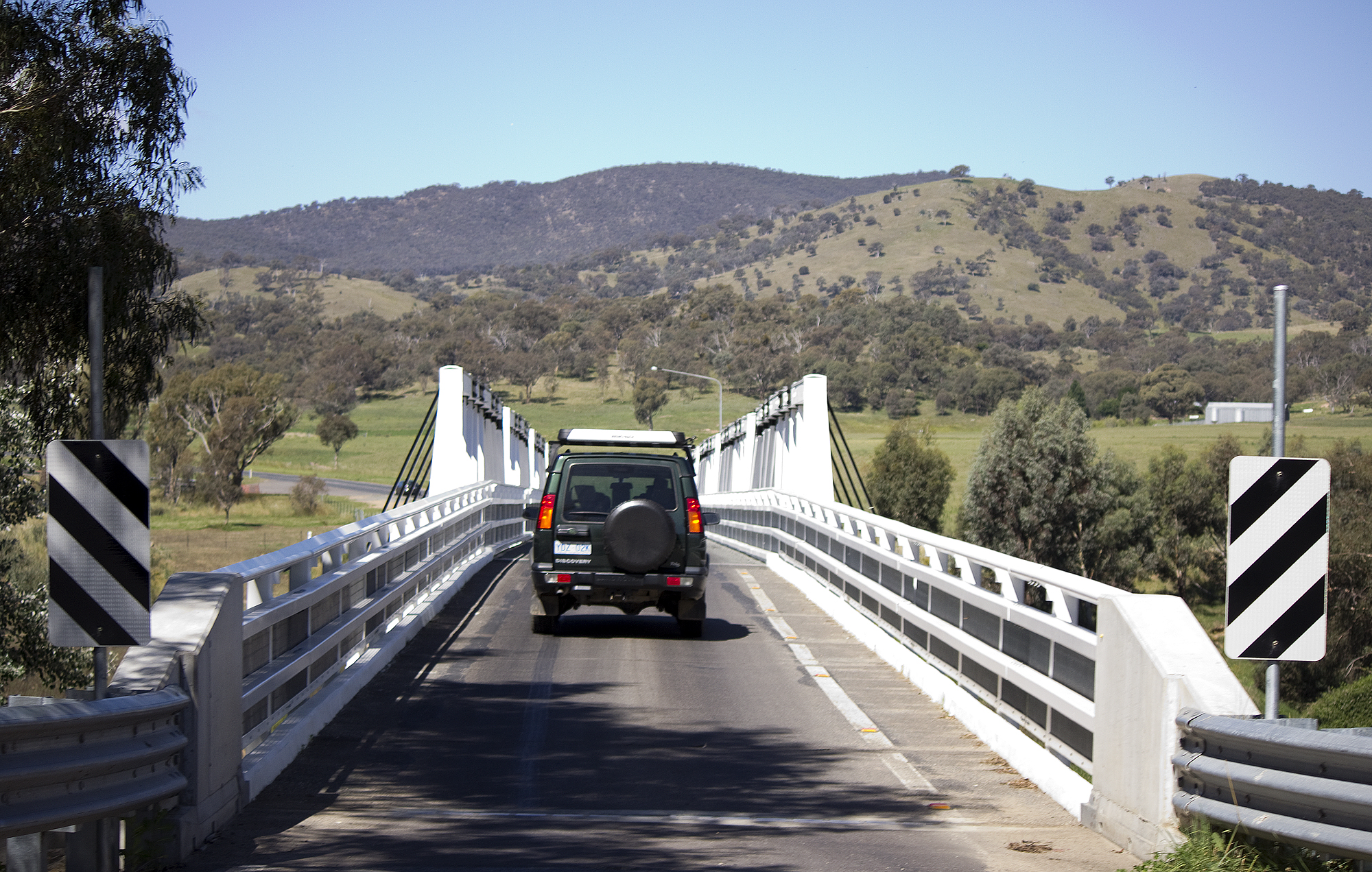 Allen Truss bridge at Tharwa, Australian Capital Territory